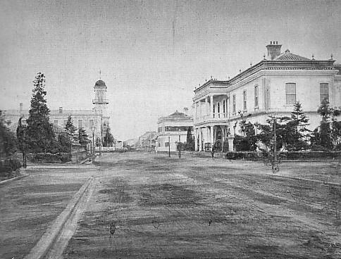 Yokohama-Honcho in the Meiji era